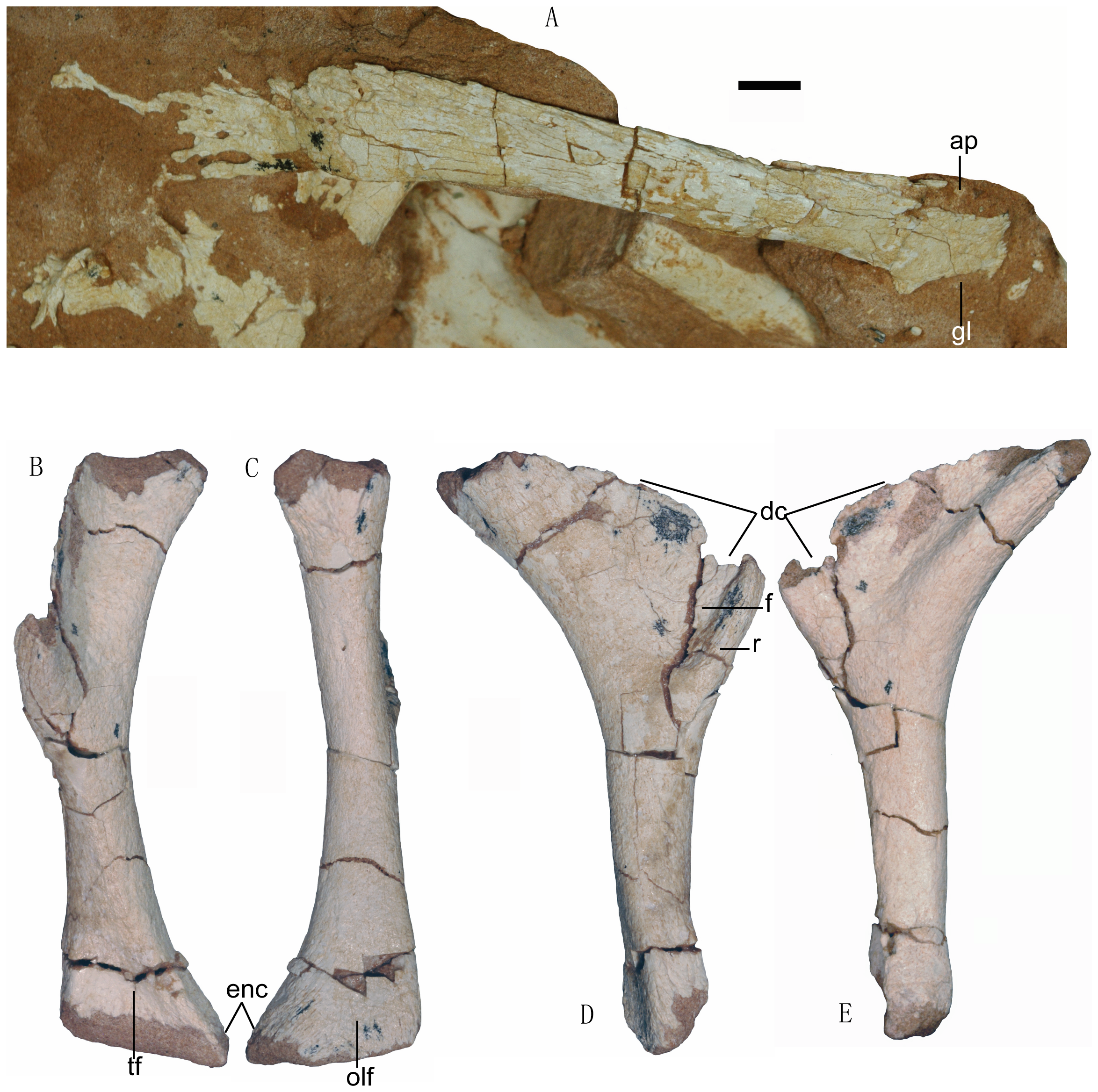 Photographs of the pectoral girdle and forelimb of the Linhevenator tani holotype (LH V0021). A, right scapula in lateral view; right humerus in anterior (B), posterior (C), medial (D), and lateral (E) views. Abbreviations: ap, acromial process; dc, deltopectoral crest; enc, entepicondyle; gl, glenoid fossa; f, fossa; olf, olecranon fossa; r, ridge; tf, triangular fossa. Scale bar equals 10 mm.